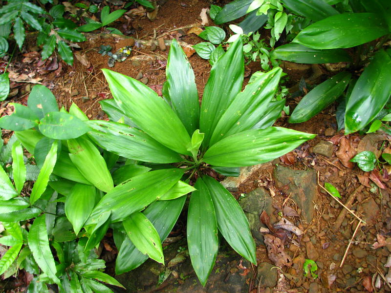 Cordyline cannifolia in rainforest at Crawford's Lookout, Palmerston Highway, in Wooranooran National Park.